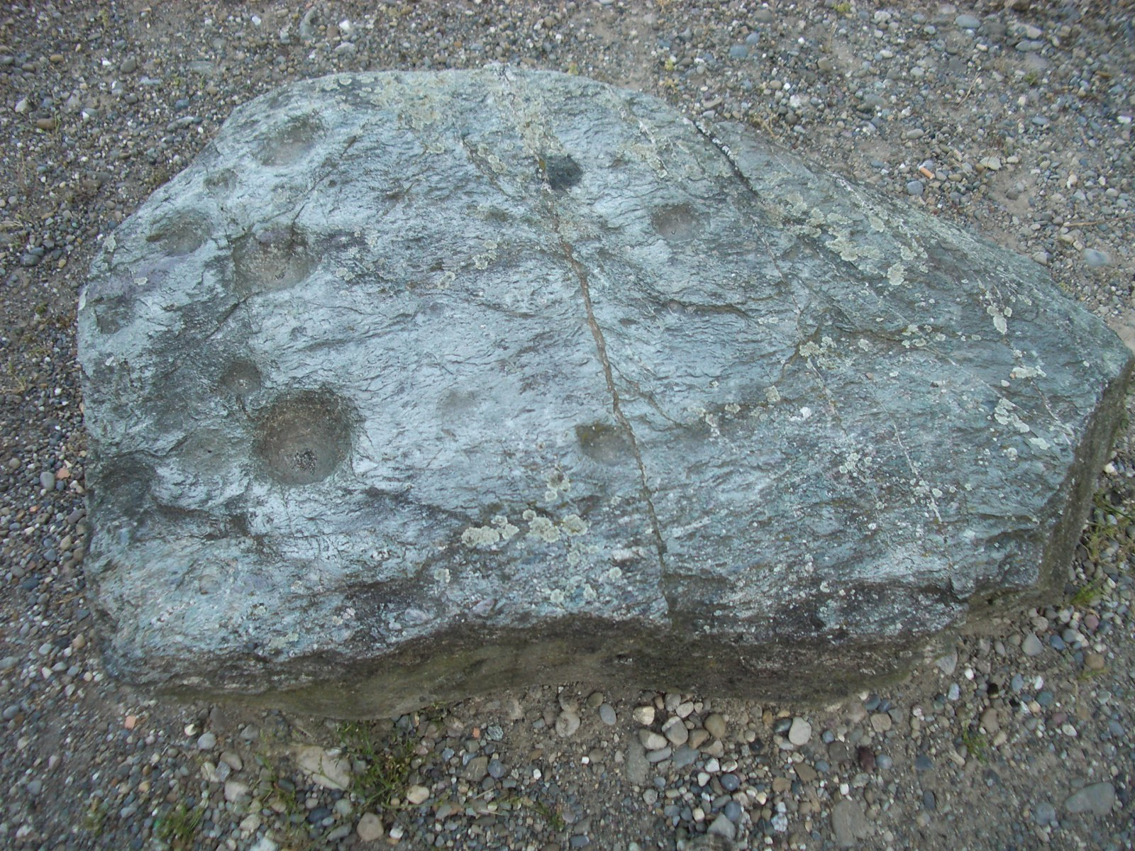 Herrliberg ZH, Switzerland (cf. the "cup marks" of the Nordic Bronze Age)